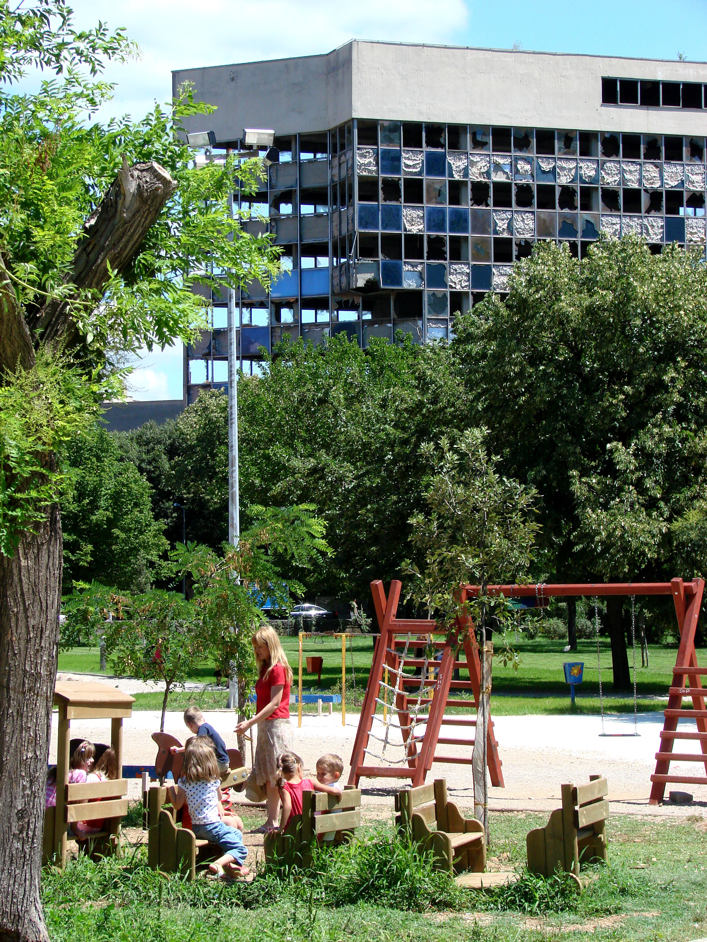 Park with war-ruined backdrop in Mostar, Bosnia and Herzegovina. July 2007.